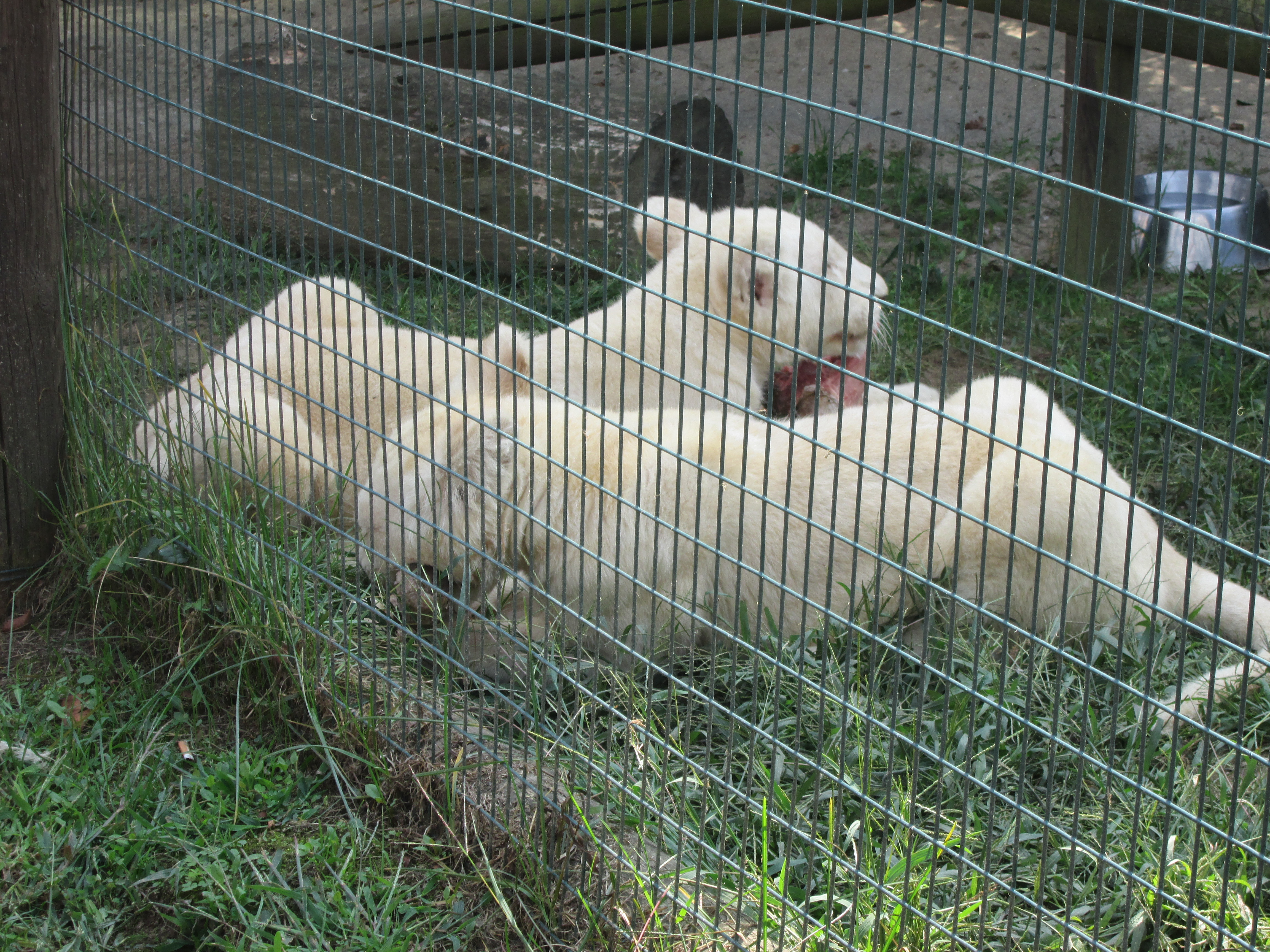 Young White Lions in Pombia Safari Park (ITALY) during their lunch